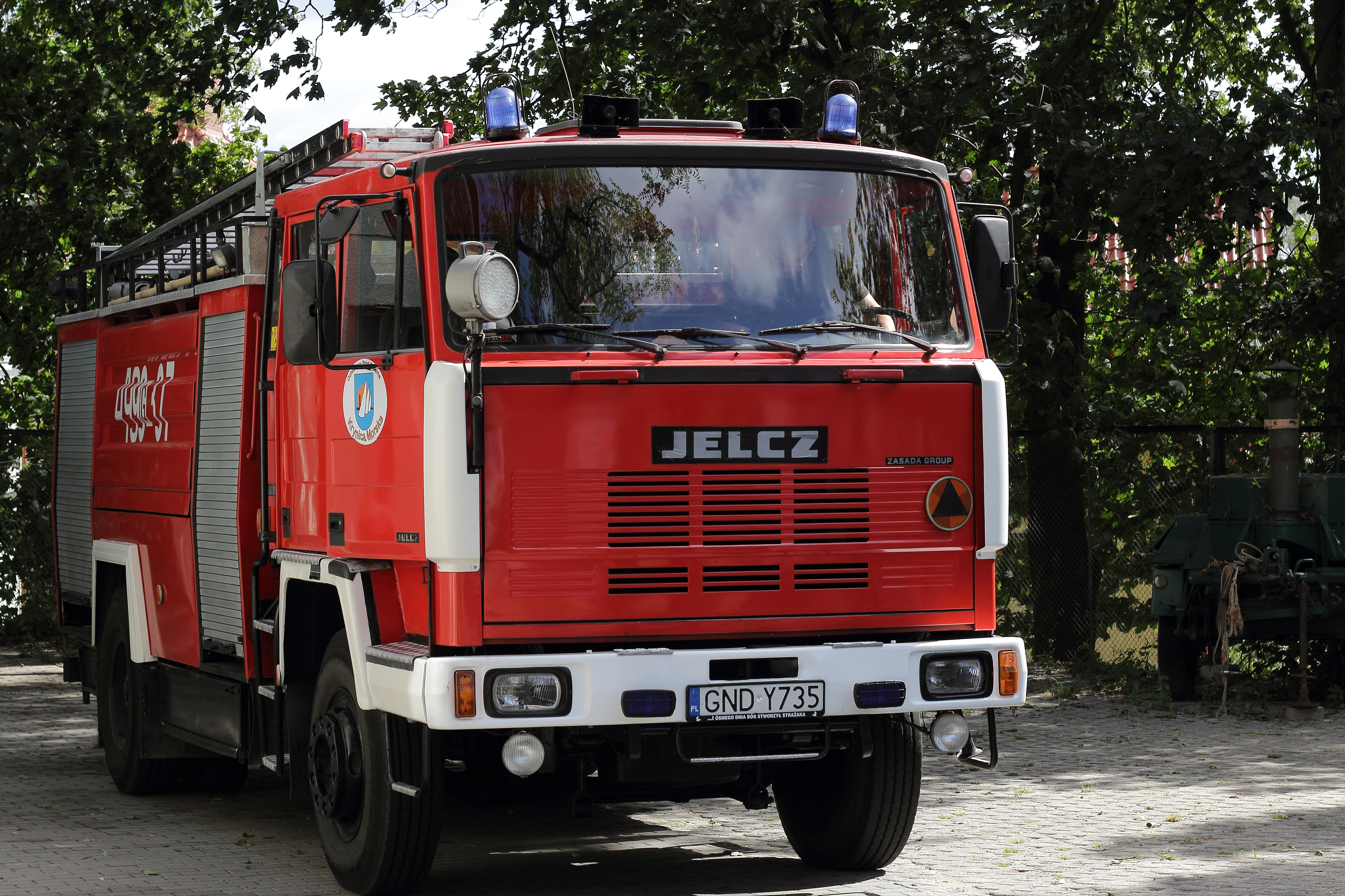 GCBA 5/24 Jelcz P422 of OSP Krynica Morska.